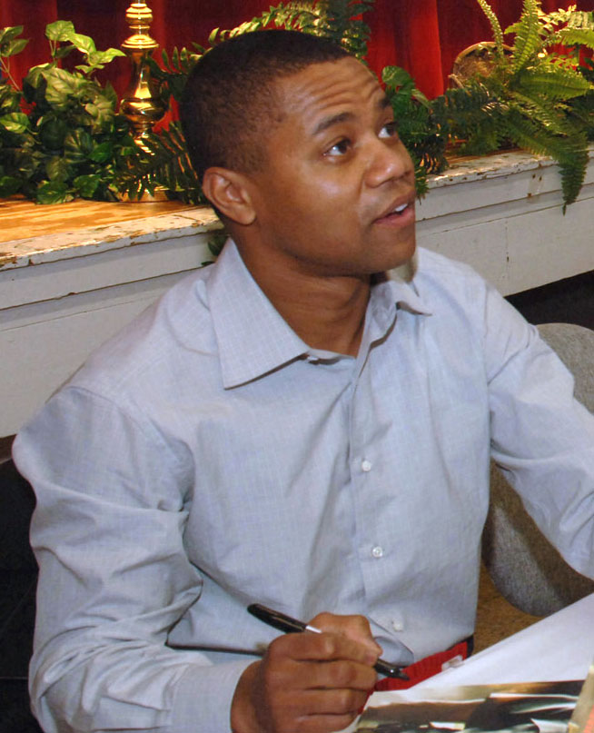 Virginia Beach. Actor Cuba Gooding signs an autograph Fort Story Virginia.